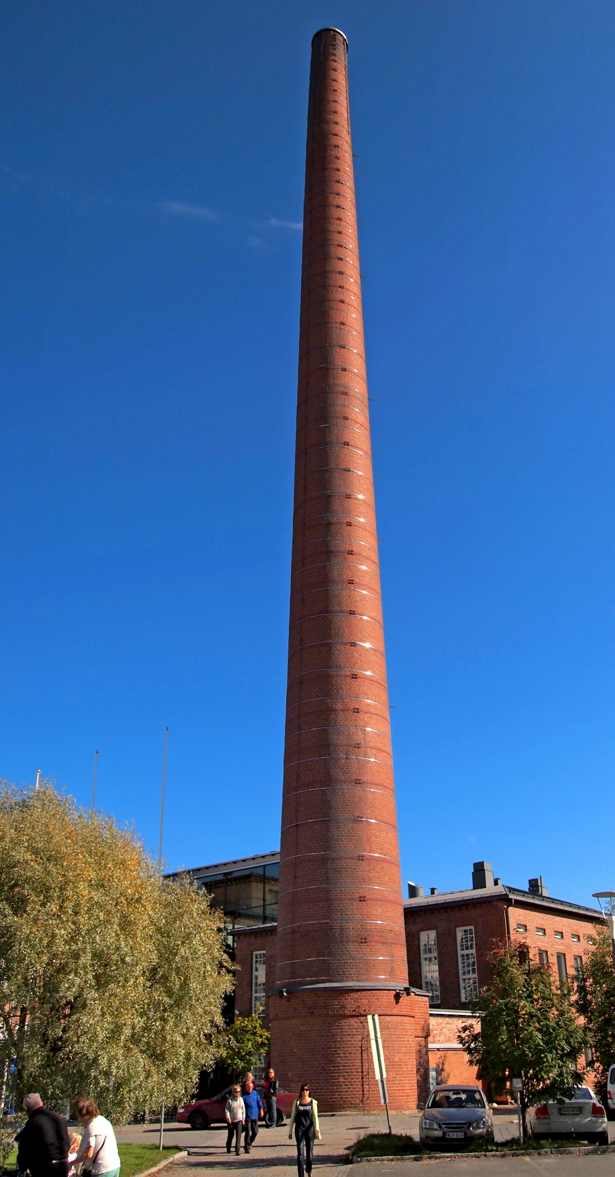 Chimney in Lutakko district, Jyväskylä. This photograph was taken with an Olympus E-PL1